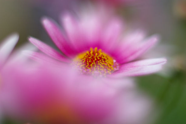 Flower took with Lenz with Closeup Ring.